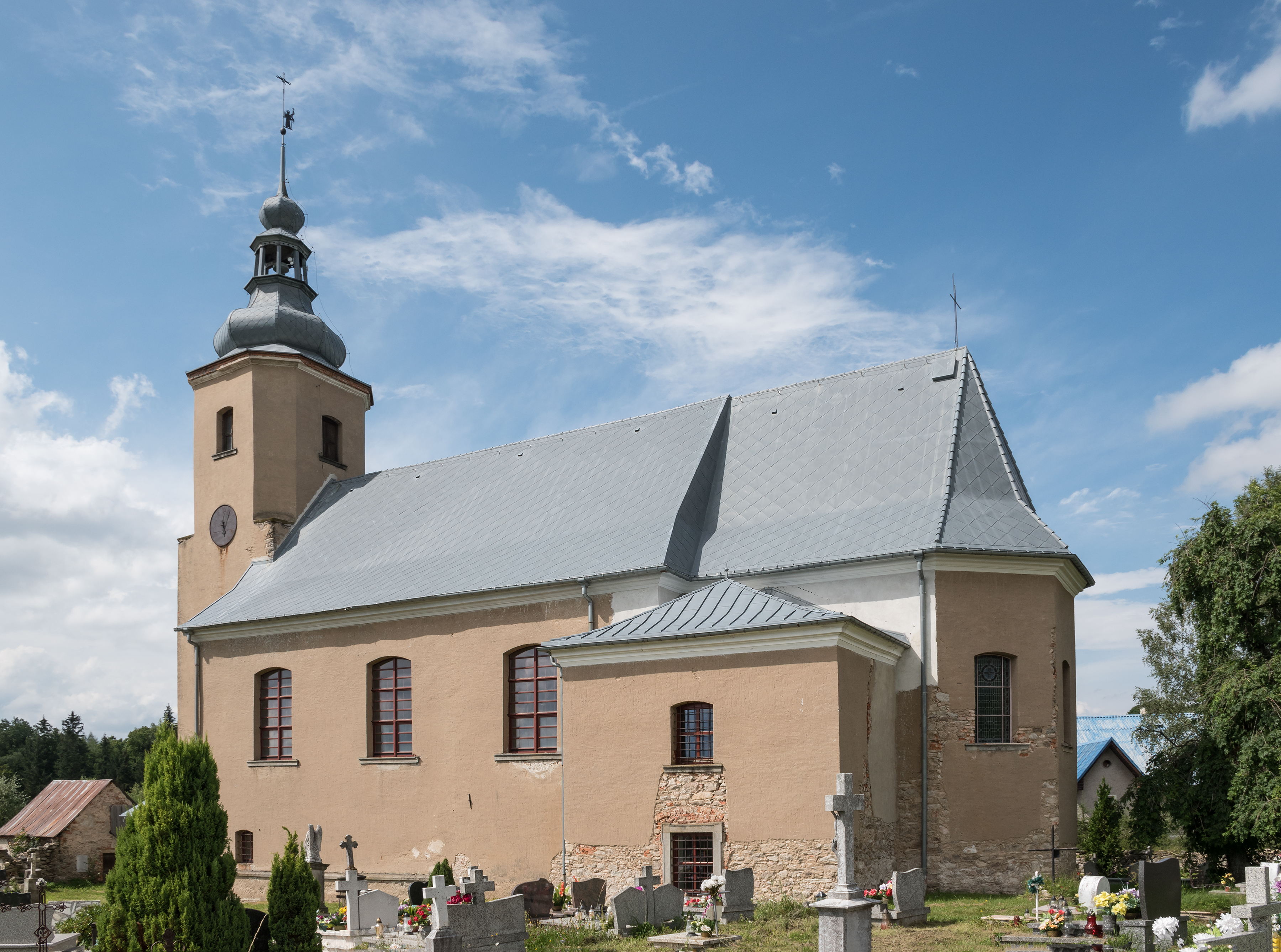 Church of John the Baptist in Jodłów Wikidata has entry Q30046614 with data related to this item.